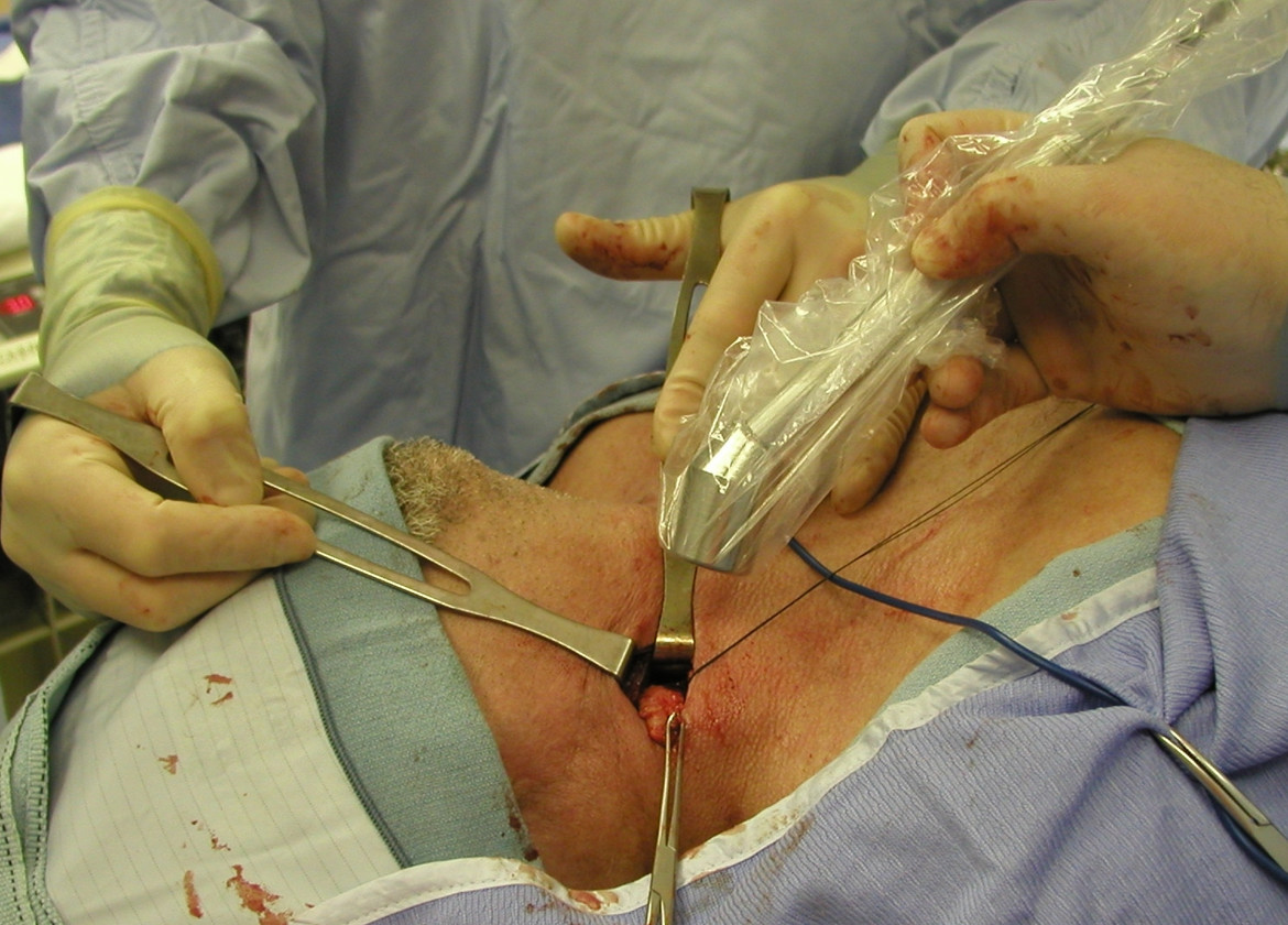 PET-probe guided excision of FDG-positive lymph node in the neck. Final pathology confirmed metastatic squamous cell cancer.